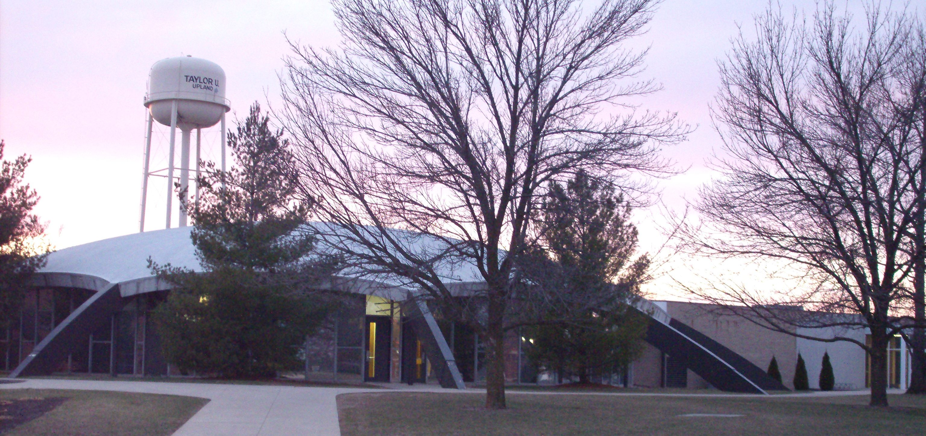 Taylor University Student Union